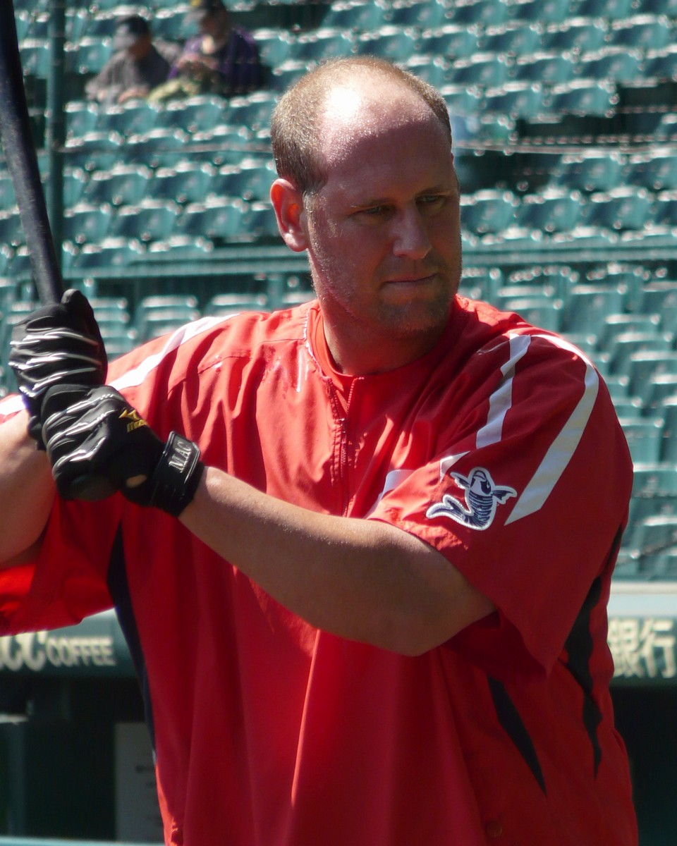 Scott McClain